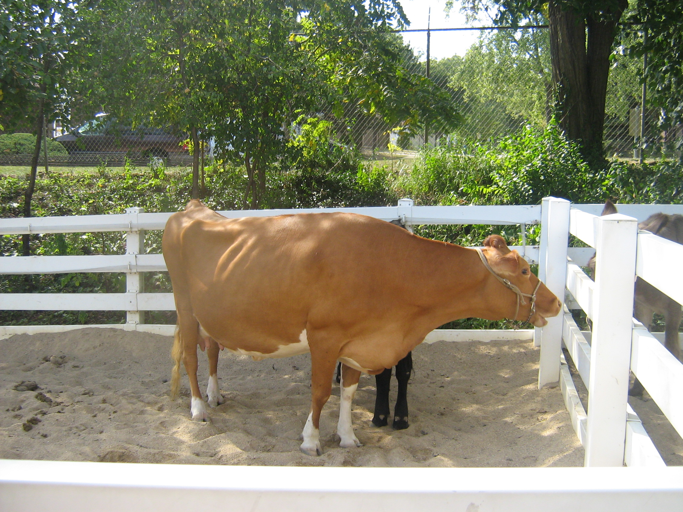 Guernsey Dairy Cow at Cosley Zoo